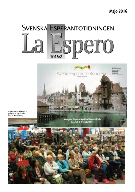 Cover of “La Espero”, May 2016